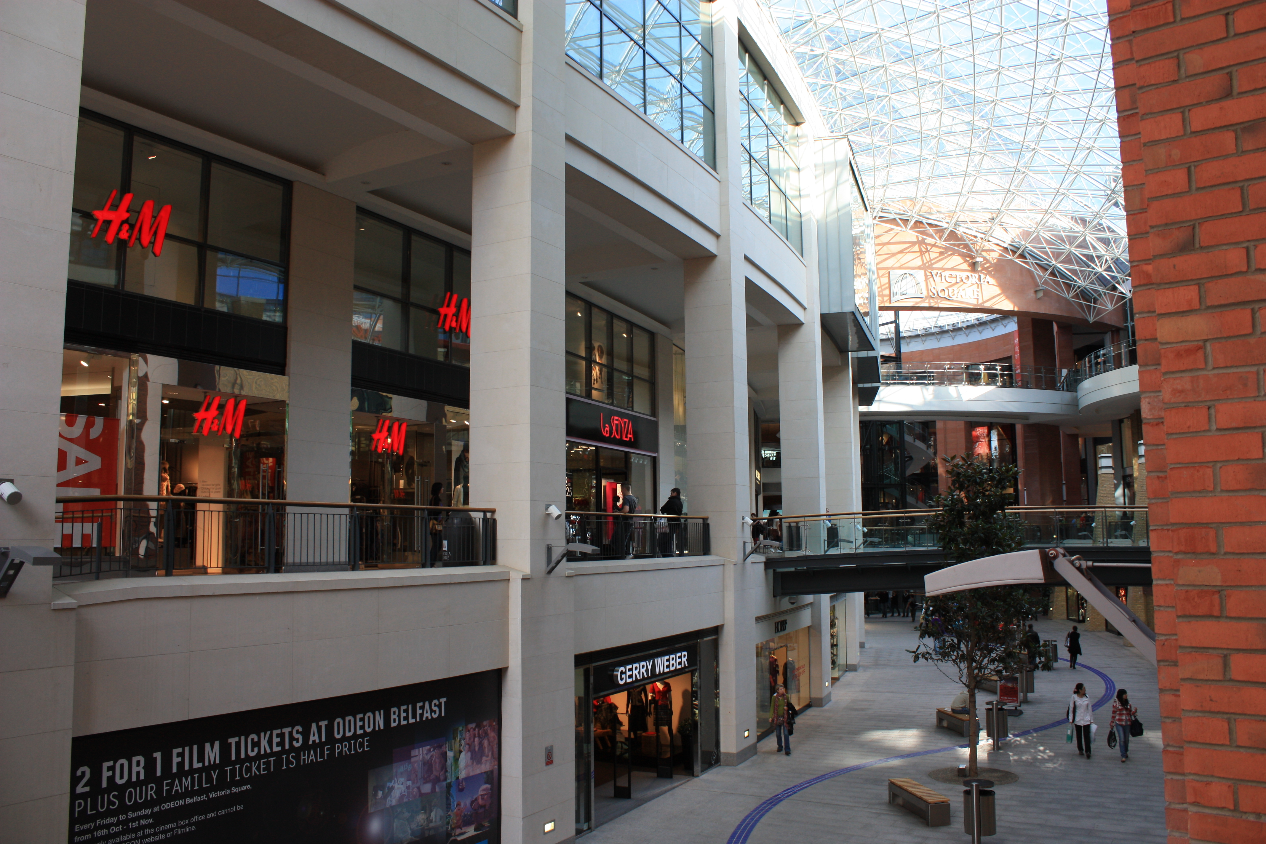 Victoria Square, Belfast, Northern Ireland, October 2009